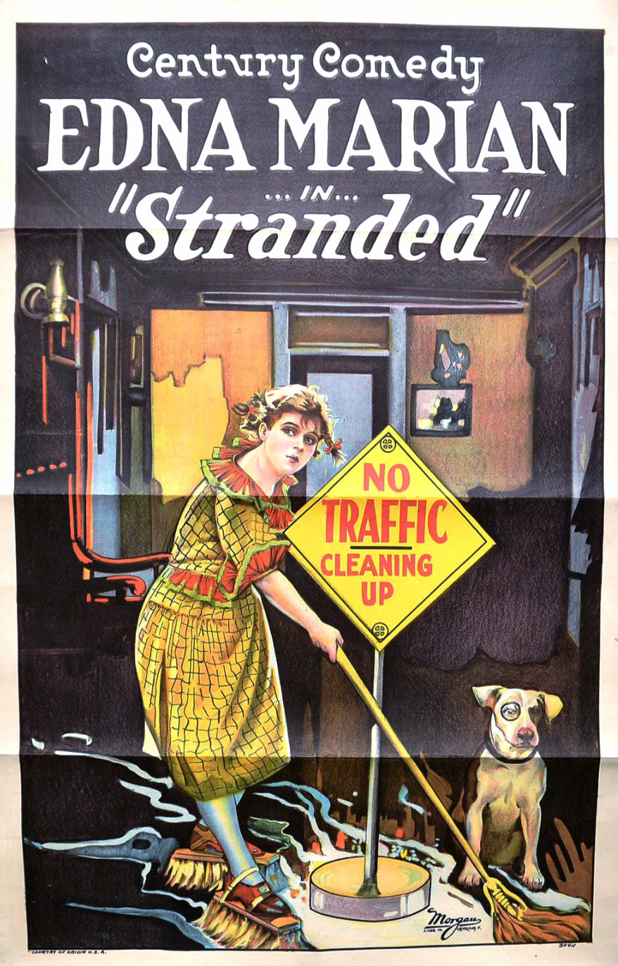 Poster for the 1925 comedy short Stranded with Edna Marian (AKA Edna Marion).